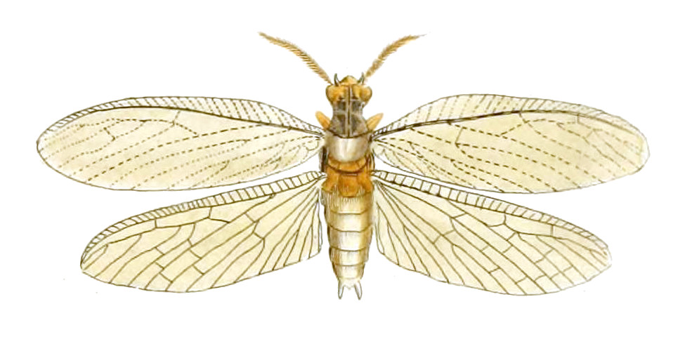 Drury & Westwood 1837 "Illustrations of Exotic entomology" Plate XLVI: Neuroptera: fig 1- Myrmeleon libelluloides fig 2- Euptilon ornatum fig 3- Chauliodes virginiensis (syn.= Hemerobius virginiensis) fig 4- Myrmeleon americanum (syn.= Vella americana)